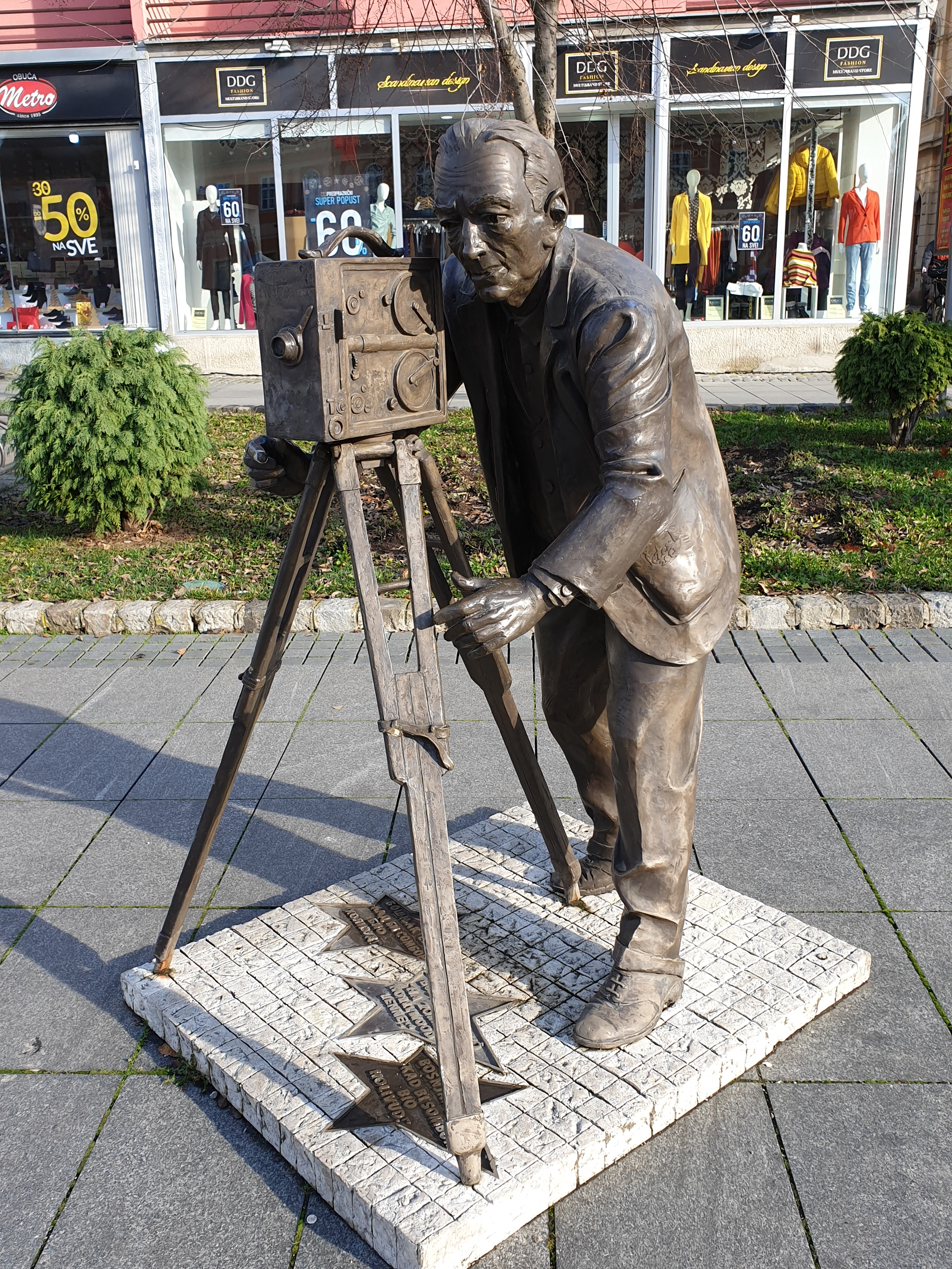 Statua Ernesta Bošnjaka